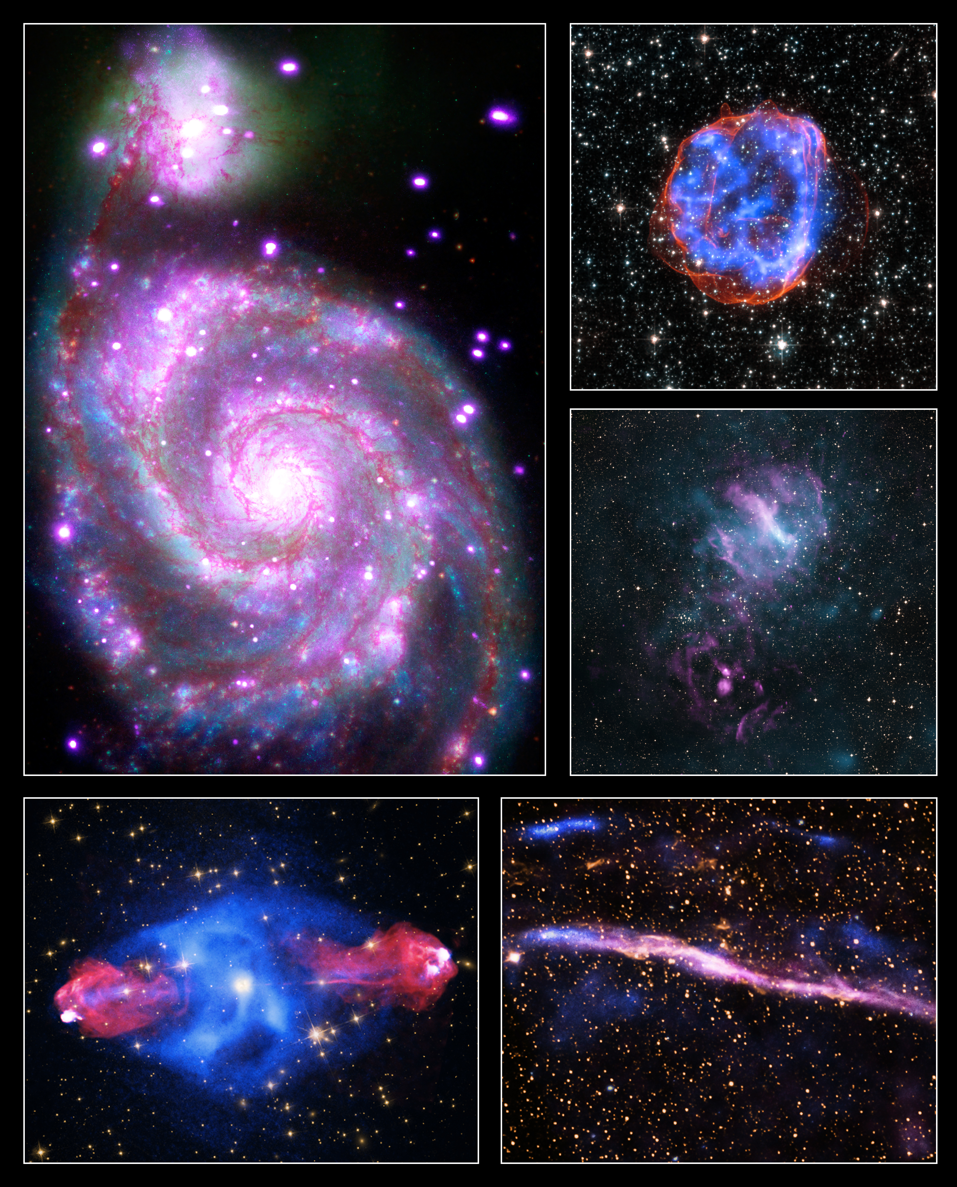 IYL 2015: Chandra Celebrates The International Year of Light January 22, 2015 This montage features images of five different objects, ranging from a distant galaxy to a relatively close supernova remnant. Each image contains X-rays from Chandra along with data from other telescopes that detect different types of light. These images were released to commemorate the start of the International Year of Light 2015, a year-long celebration declared by the United Nations. These images illustrate how astronomers use different types of light together to get a more complete view of objects in space.